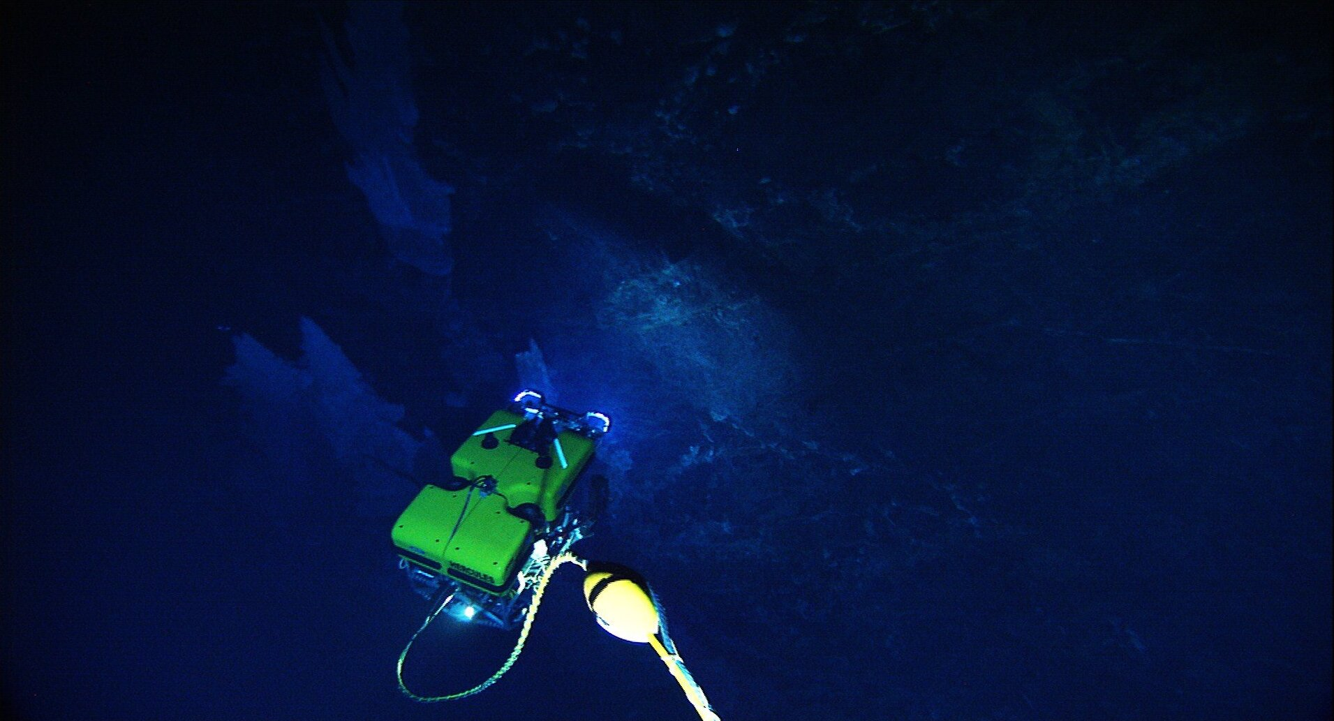 The Hercules ROV is being maneuvered in the vicinity of the carbonate rock spires of the Lost City vent field. Atlantic Ocean, Mid-Atlantic Ridge.